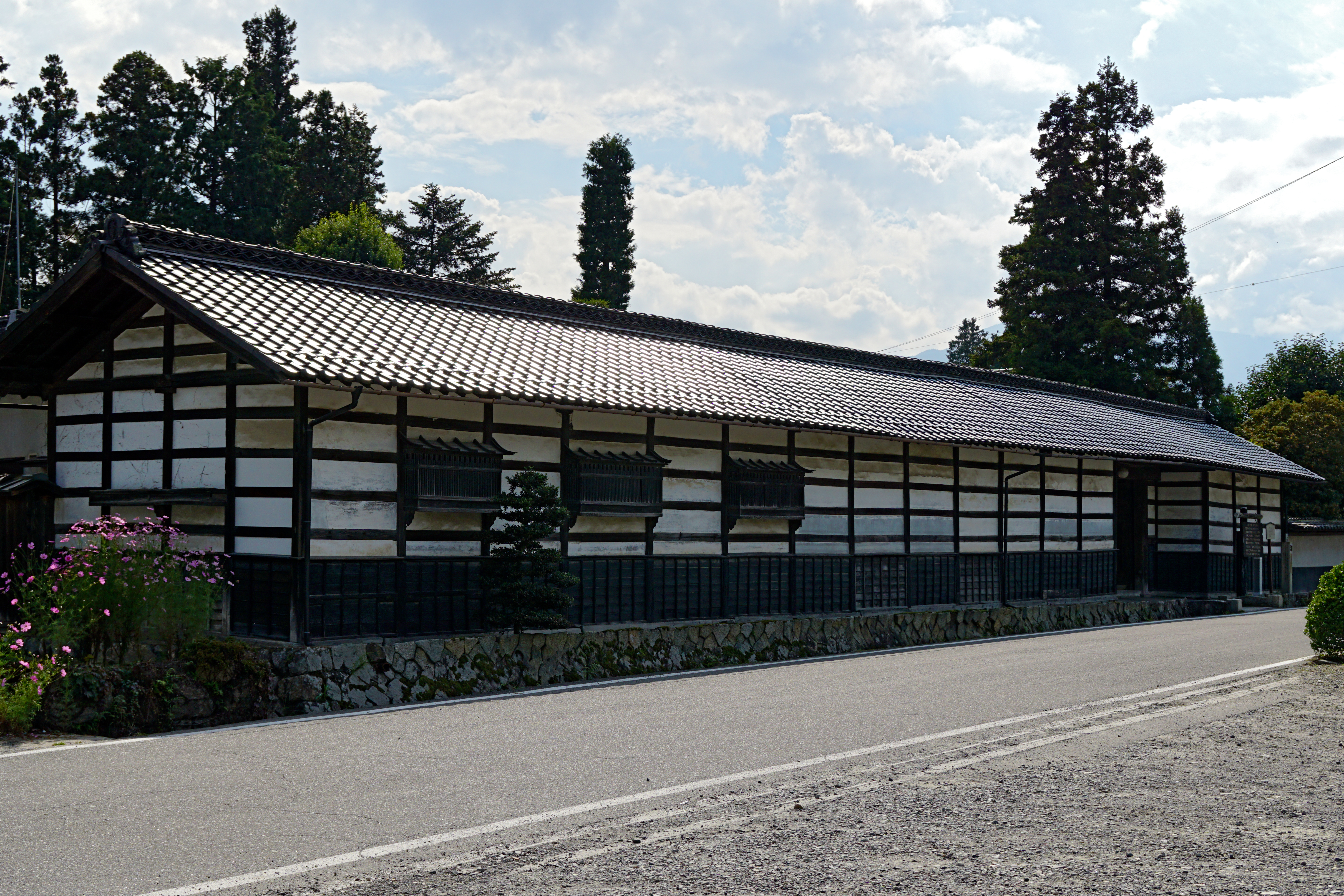 Todoroki House in Azumino, Nagano prefecture, Japan